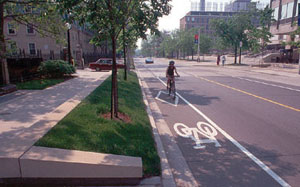 A person rides a bicycle in a diamond lane in Toronto. Image from: (United States Department of Transportation - Federal Highway Administration)